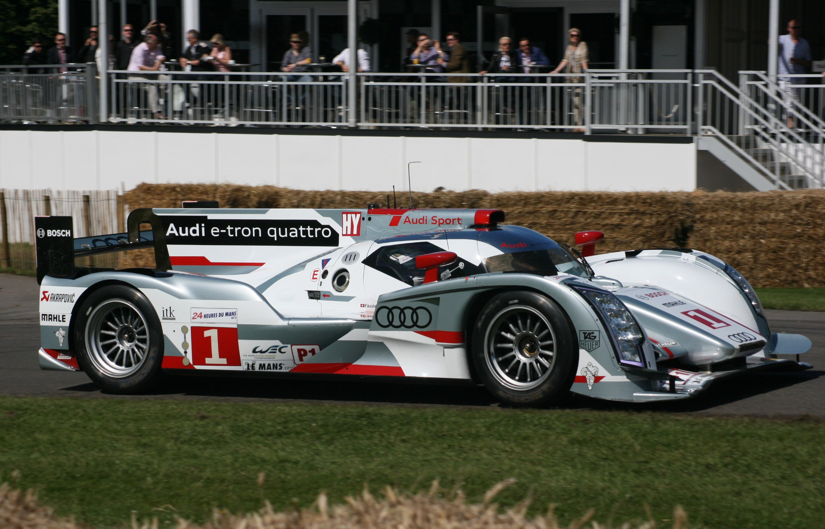 The Le Mans 24 Hours 2012 winning car Audi R18 e-tron quattro at the 2012 Goodwood Festival of Speed